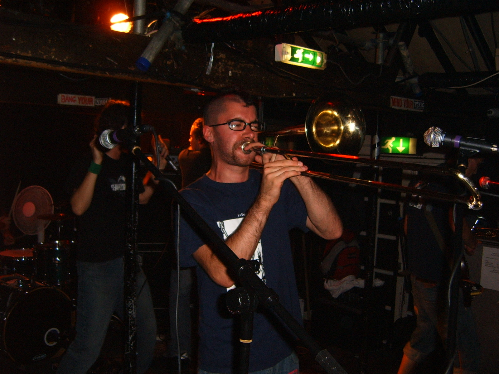 Live photo of Adequate Seven, taken at the Ferry Boat Inn, Norwich, Sunday 10th July 2005 by myself.